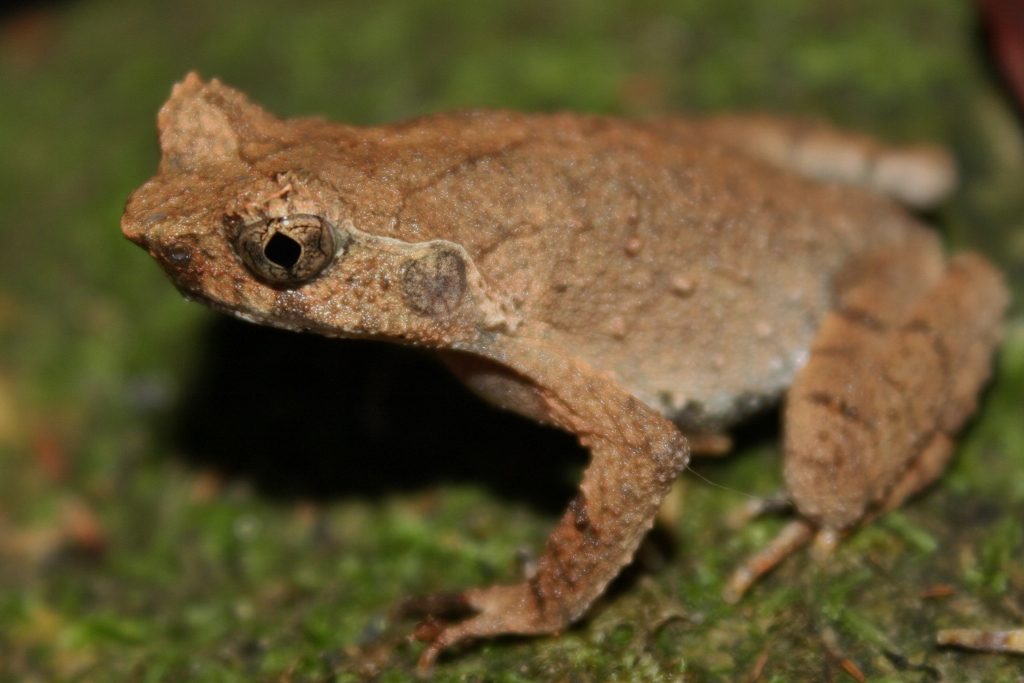 Short-legged Toad (Xenophrys brachykolos). Taken in Pok Fu Lam Country Park.